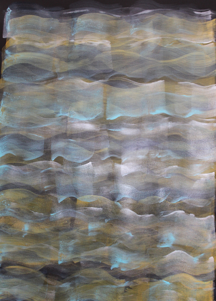 56 cm X 76 cm, Mixed media: pigments, acrylic and ink on black paper